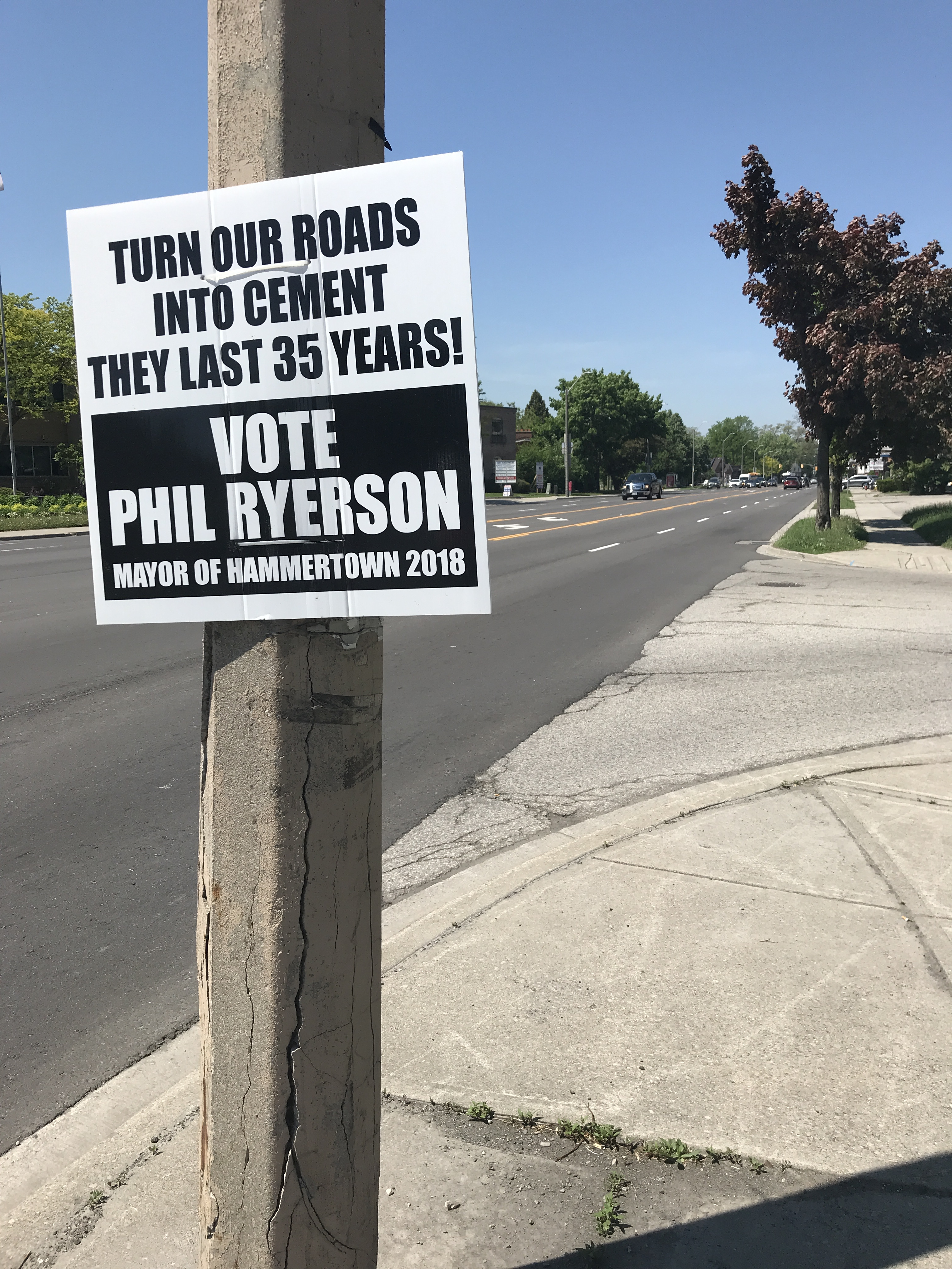 An illegally-posted mayoral election campaign sign for candidate Phil Ryerson in the 2018 Hamilton municipal election campaign at the corner of Main Street West and Newton Avenue in Hamilton's Westdale neighbourhood.